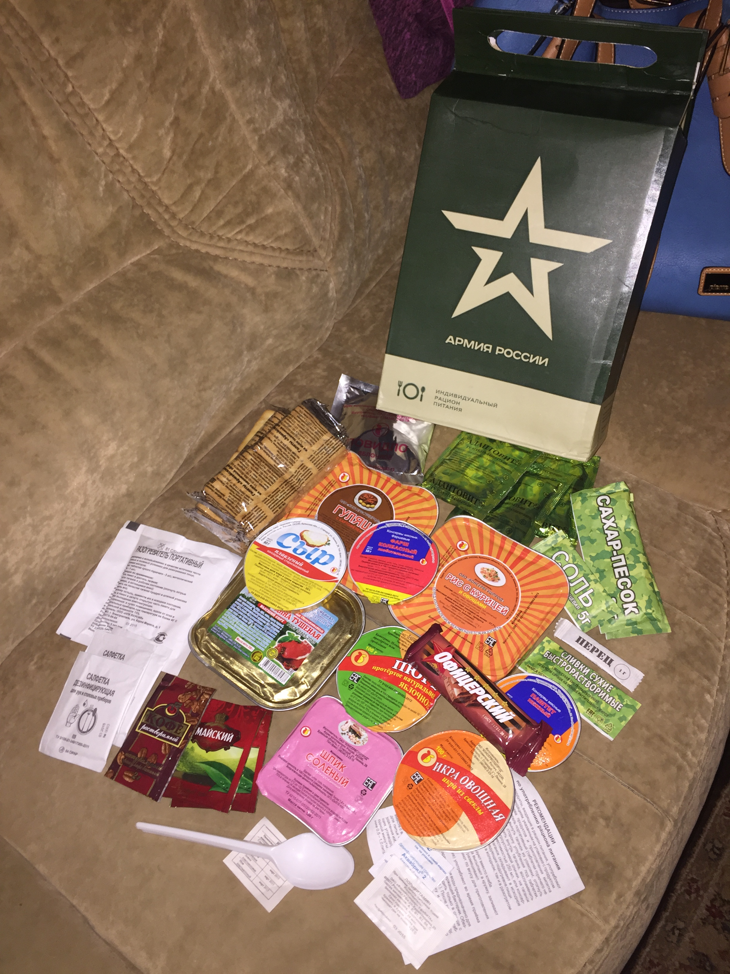 Field ration of a soldier of the Armed Forces of Russia, 2016.